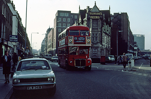 Praed Street RML2723 on the 15 route passes the junction with South Wharf Road. Routemasters continue to work on the 15 bus route, but normally only between Hyde Park Corner and Tower Hill. The pub advertising Trumans Beers is the Grand Junction Arms, now closed.